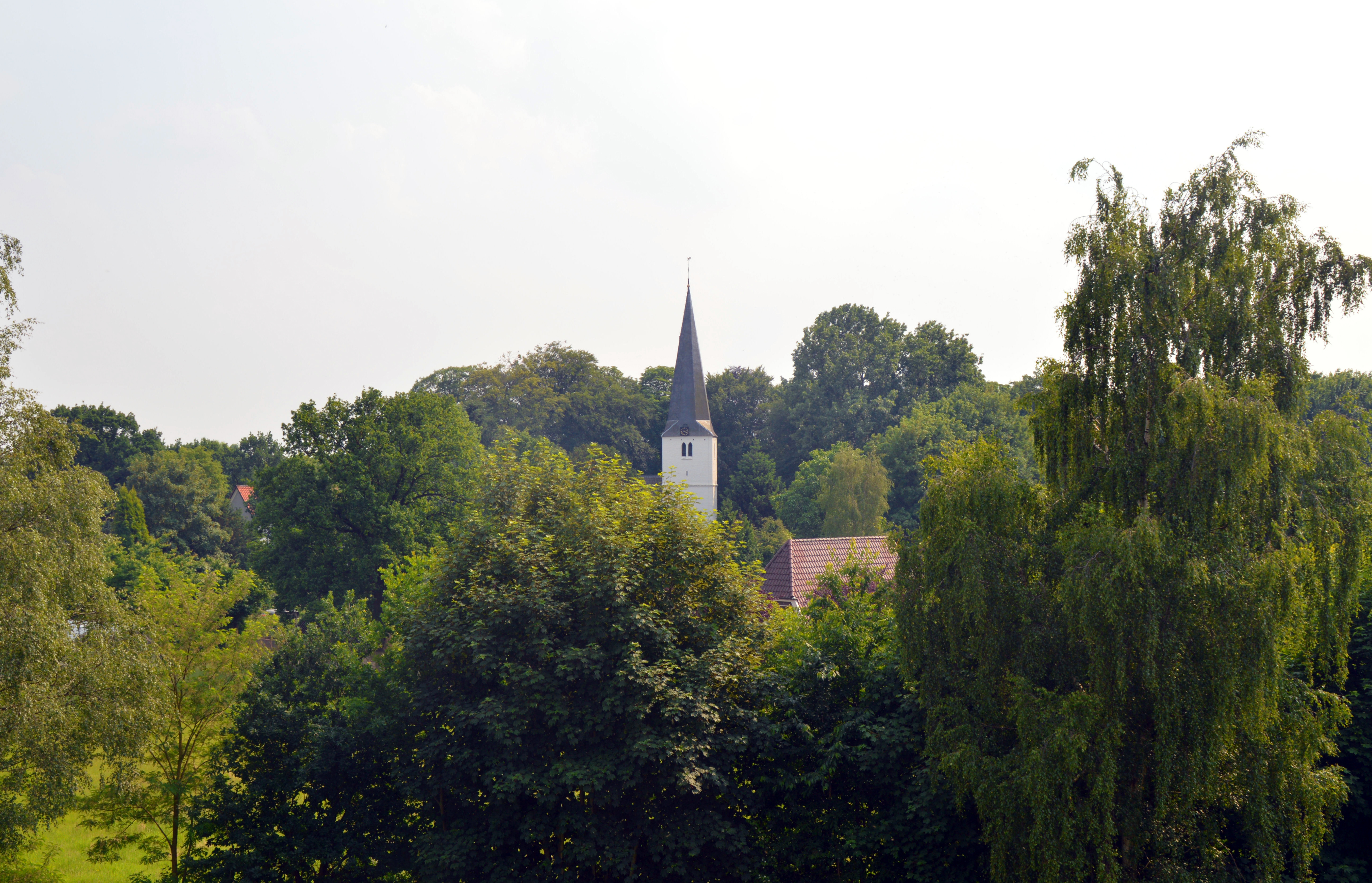 Dutch Reformed Church Neerbosch Nijmegen Witte kerkje van Neerbosch view from the A73